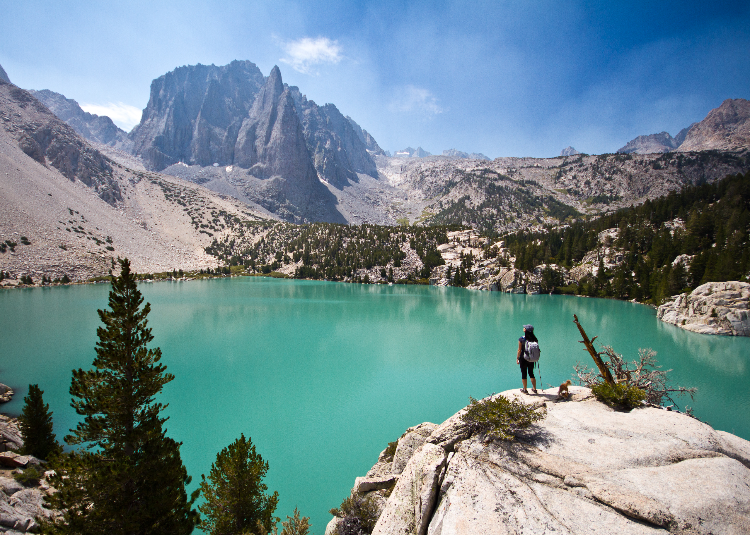 Second Lake and Temple Crag. North Fork Big Pine Creek, Inyo National Forest, Califorina.